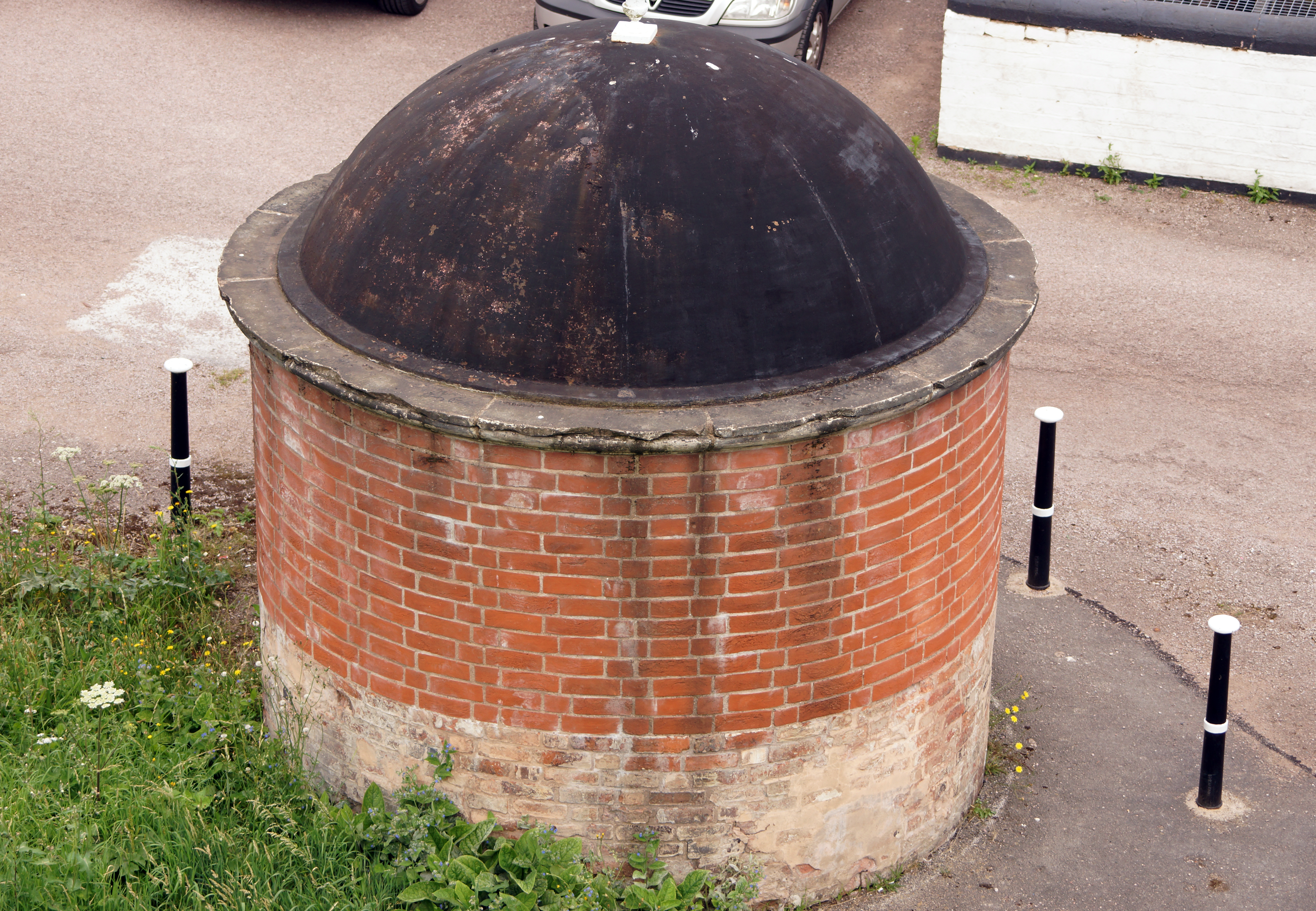 The reservoir water outflow control gear housing (valve house) below Edgbaston Reservoir in the Icknield Port Loop of the original Birmingham Canal Old Main Line built by James Brindley, 1769, in Birmingham, England. The reservoir was built to supply water to this canal. This high-level valve controlled water feeding the Wolverhampton Level of the canal along a feeder channel all the way to Smethwick locks.